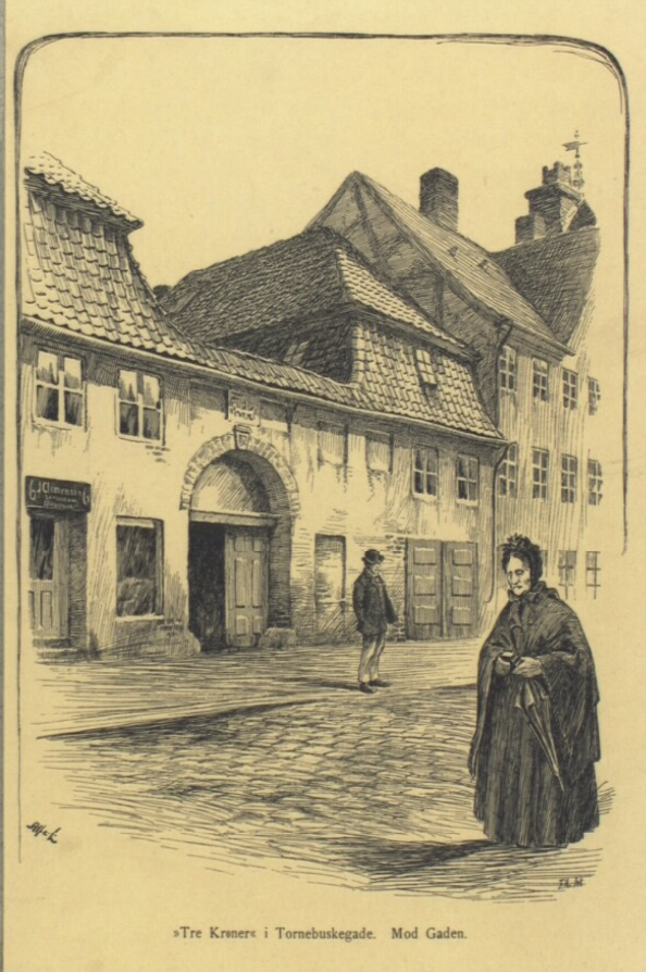 Gæstgiveriet Trekroner at Tornebuskegade 6 in Copenhagen, Denmark